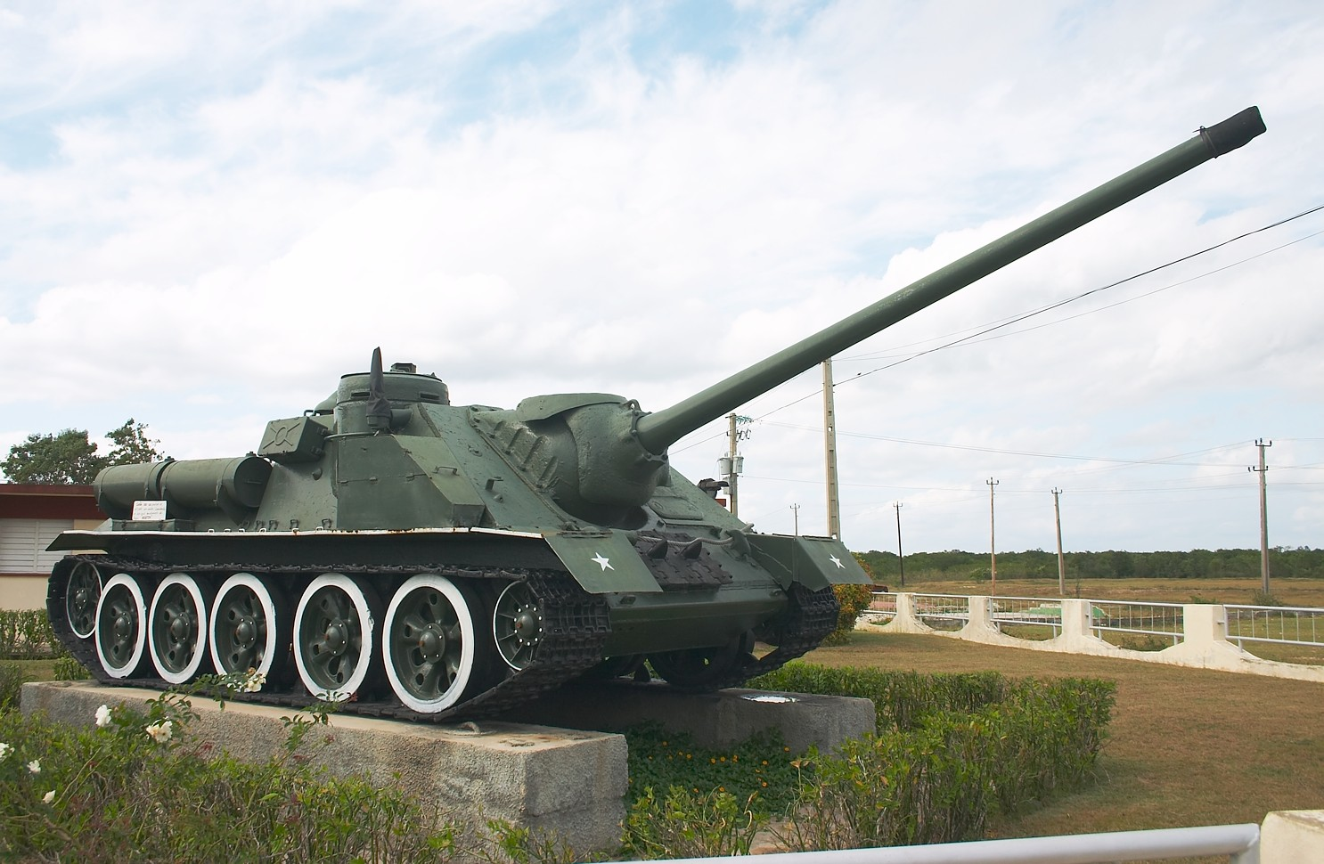 SU-100 tank destroyer at Museo Giron